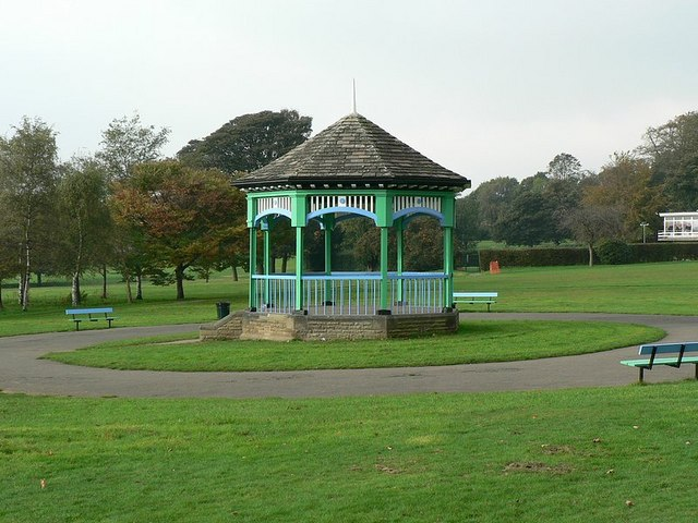 Bandstand, Horsforth Hall Park It's been painted this year - see last year's picture 83600